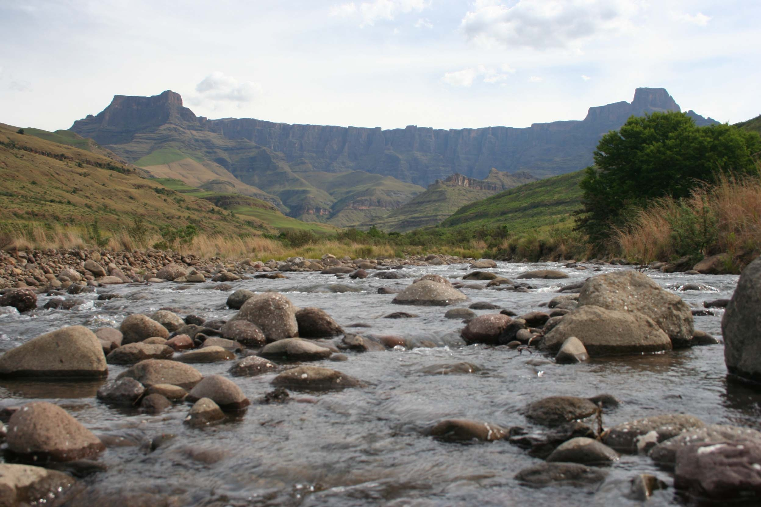 View of the Drakensberg amphitheatre as from the upper Tugela River, KwaZulu-Natal, South Africa